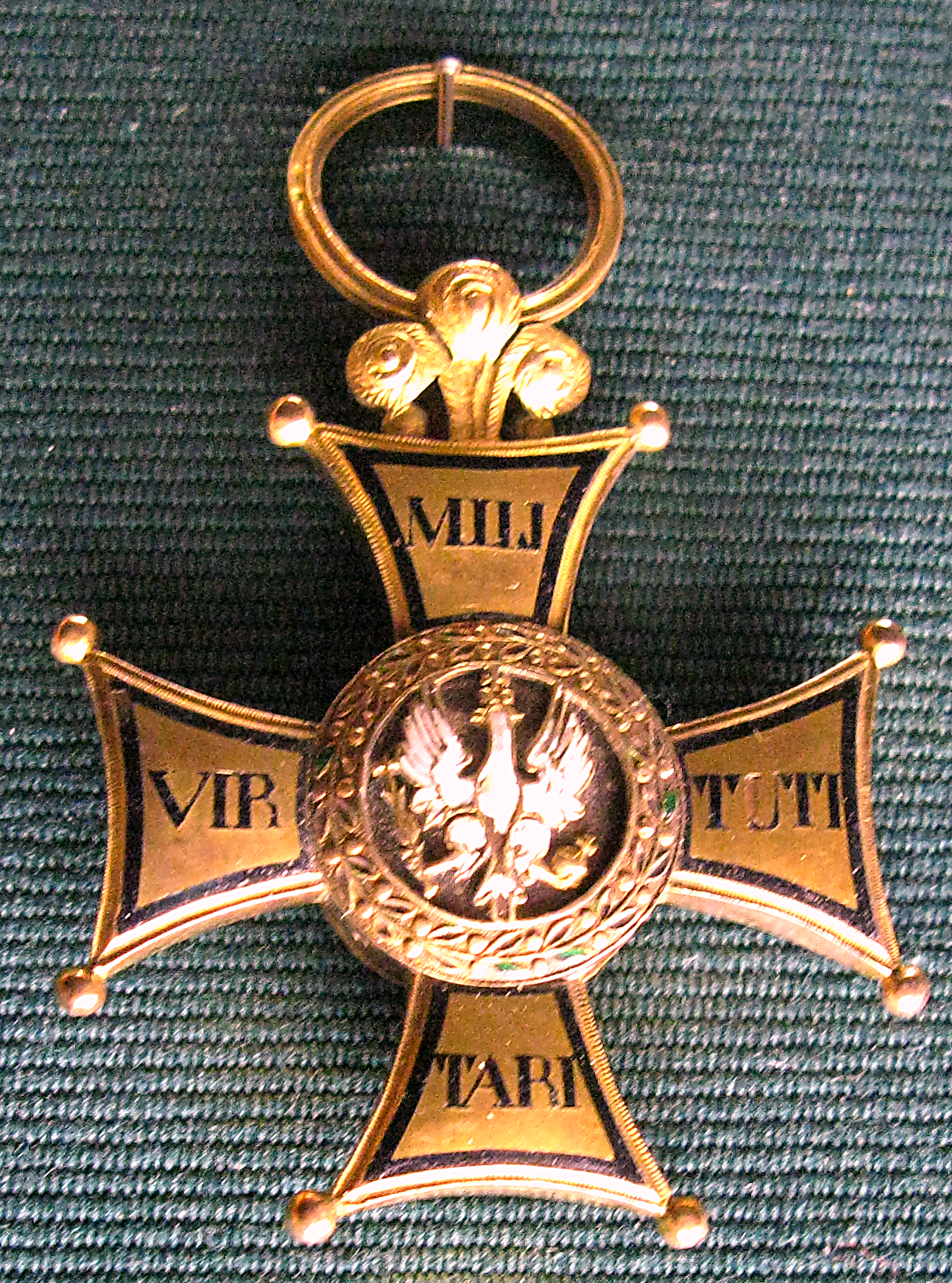 Golden Cross of Virtuti Militari Order from 1813